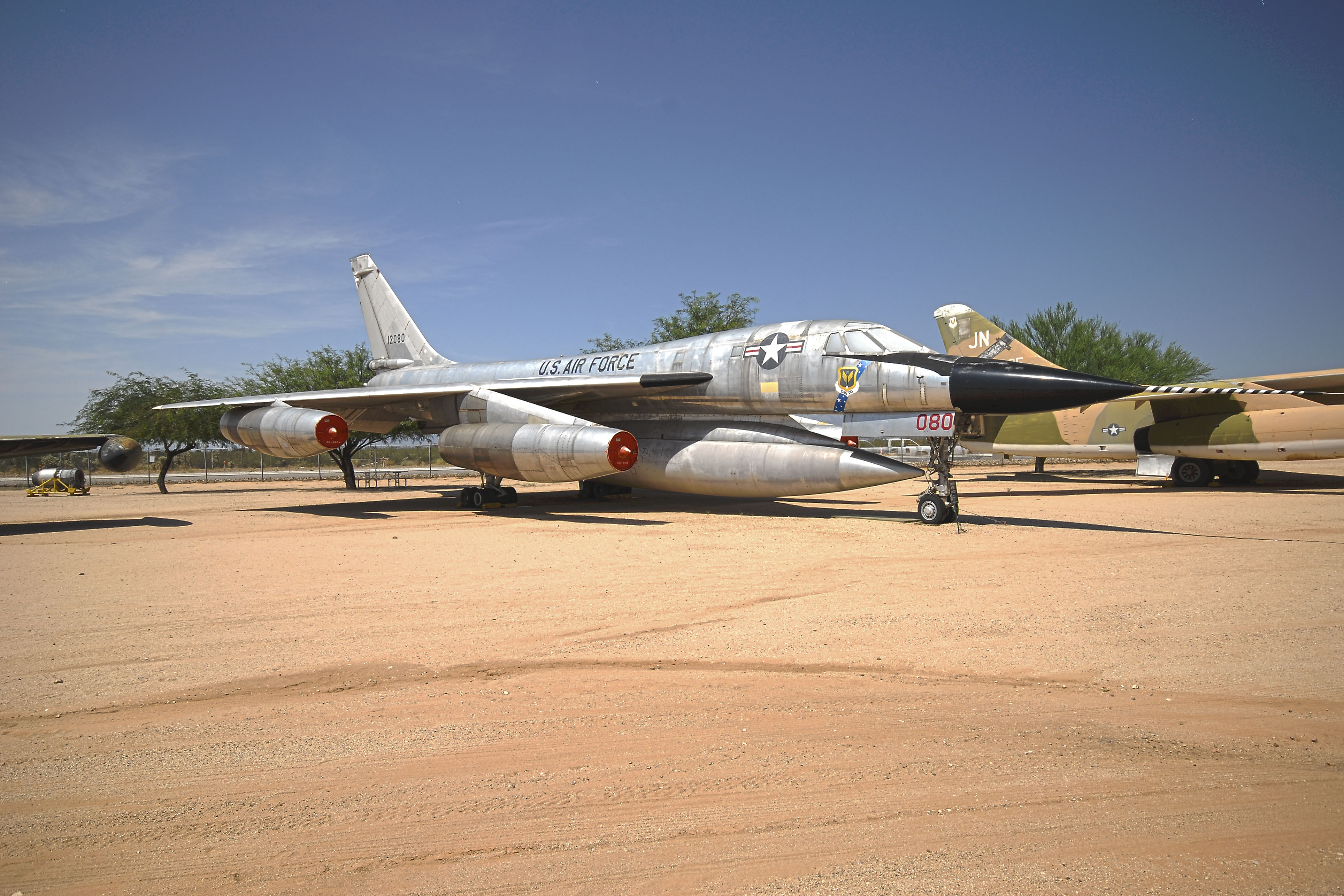 B-58A BuNo 61-2080 at the Pima Air & Space Museum in Tucson, Arizona.